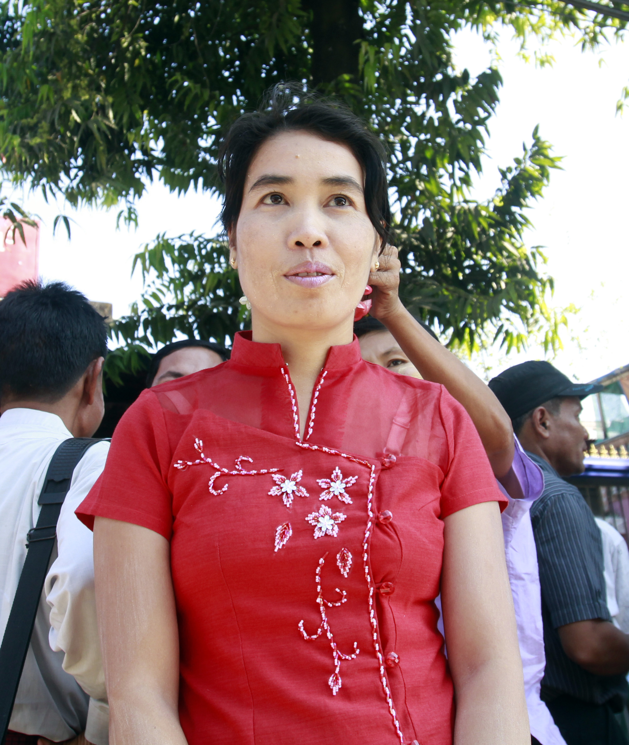 Myanmar democracy activist Su Su Nway arrives to attend forum at at National League for Democracy (NLD) headquarter in Yangon, Myanmar on 18 November 2011. မြန်မာဘာသာ: စုစုနွေး